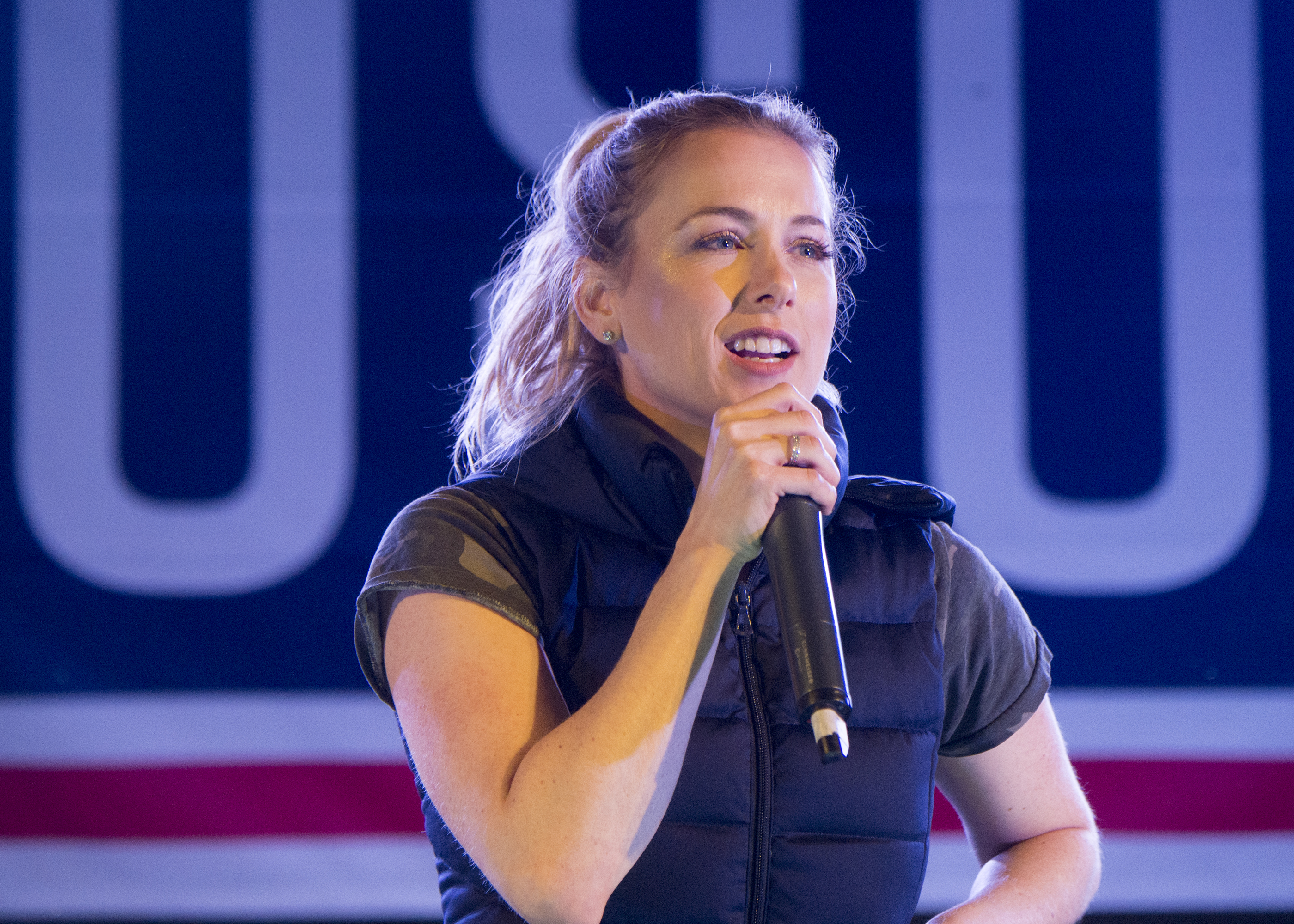 Comedian Iliza Shlesinger performs during Chairman’s USO Holiday Tour at Morón Air Base Dec. 21, 2017. Marine Corps Gen. Joe Dunford, chairman of the Joint Chiefs of Staff, and Army Command Sgt. Maj. John W. Troxell, senior enlisted advisor to the chairman, along with USO entertainers, visited service members who are deployed during the holidays at various locations across Europe and the Middle East. This year’s entertainers were Chef Robert Irvine, wrestler Gail Kim, comedian Iliza Shlesinger, actor Adam Devine, country musician Jerrod Niemann, and WWE Superstars “The Miz” and Alicia Fox. (DoD photo by Navy Petty Officer 1st Class Dominique A. Pineiro/Released)